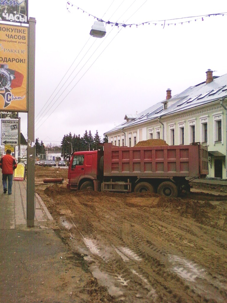 Dump Truck on B. Oktyabrskaya St. (Yaroslavl)